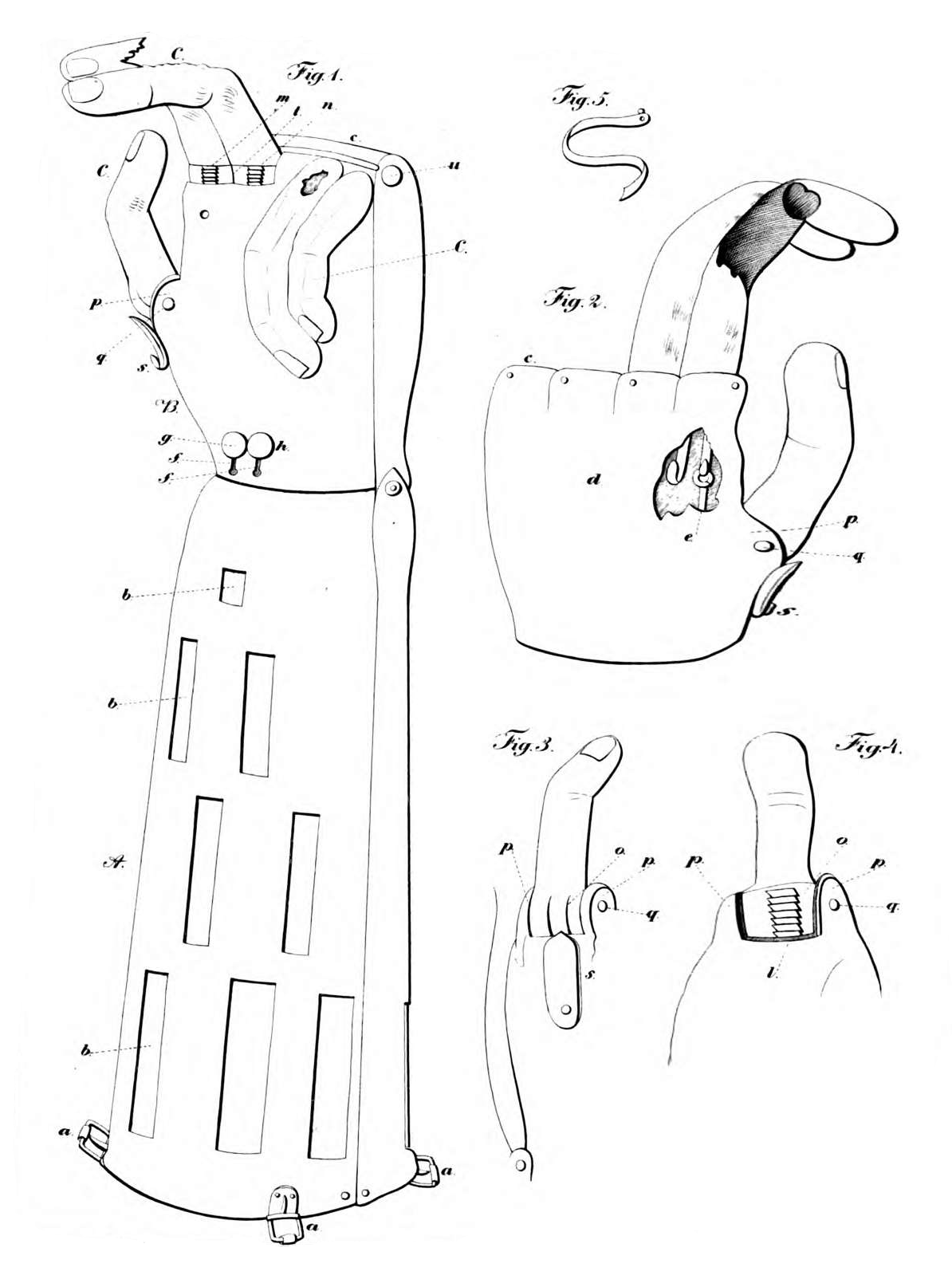 Altruppin Hand, iron artificial hand, early 16th century.